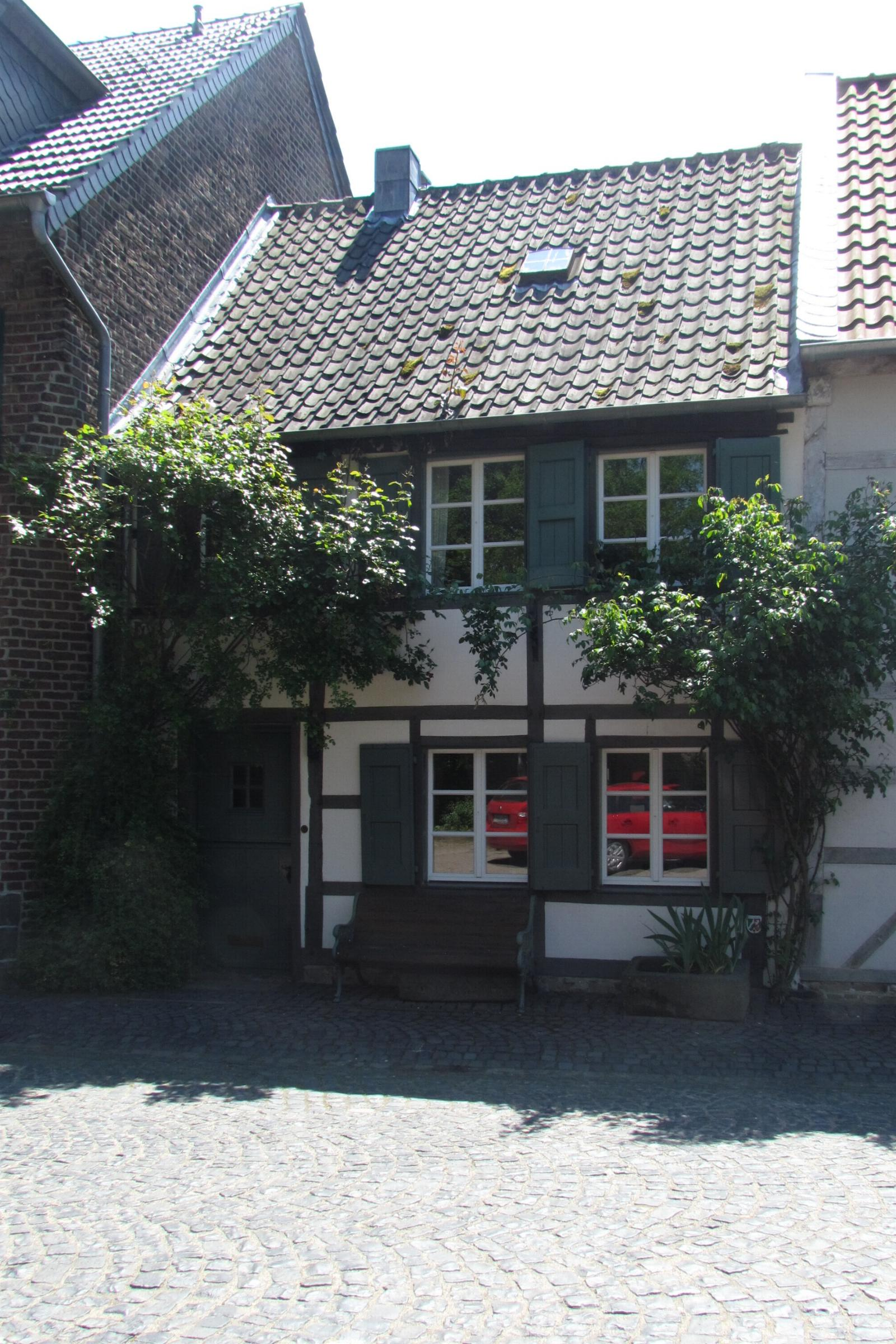 This is a photograph of an architectural monument.It is on the list of cultural monuments of Korschenbroich